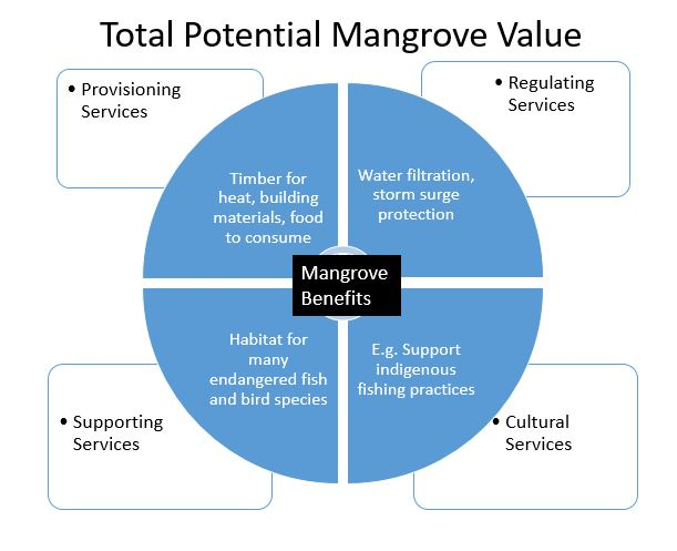 Pie Chart of Environmental Services (provisioning, regulating, supporting, and cultural services)